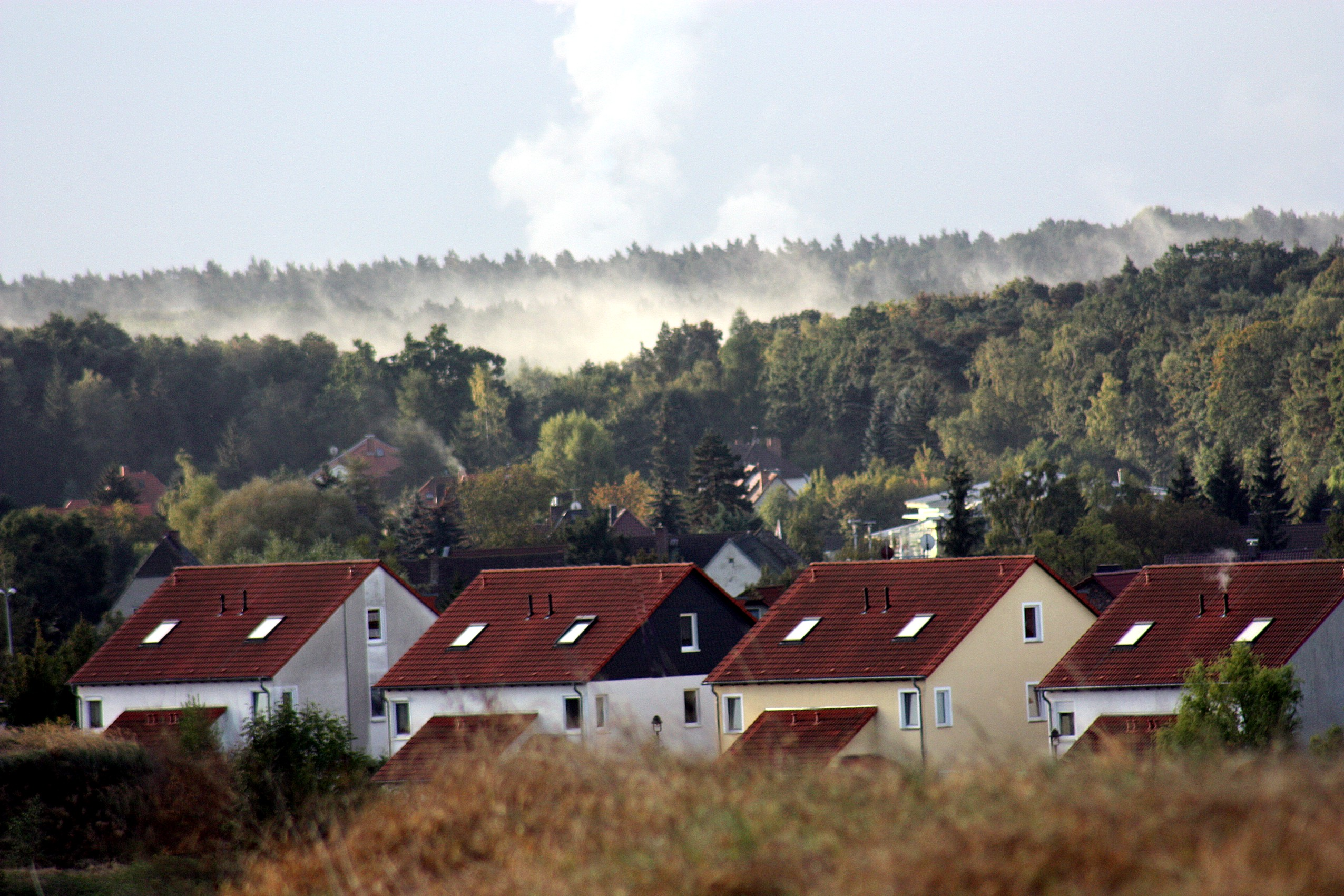 Halle-Dölau, view to the residential estate "Am Sonnenhang" and to the Dölauer Heide